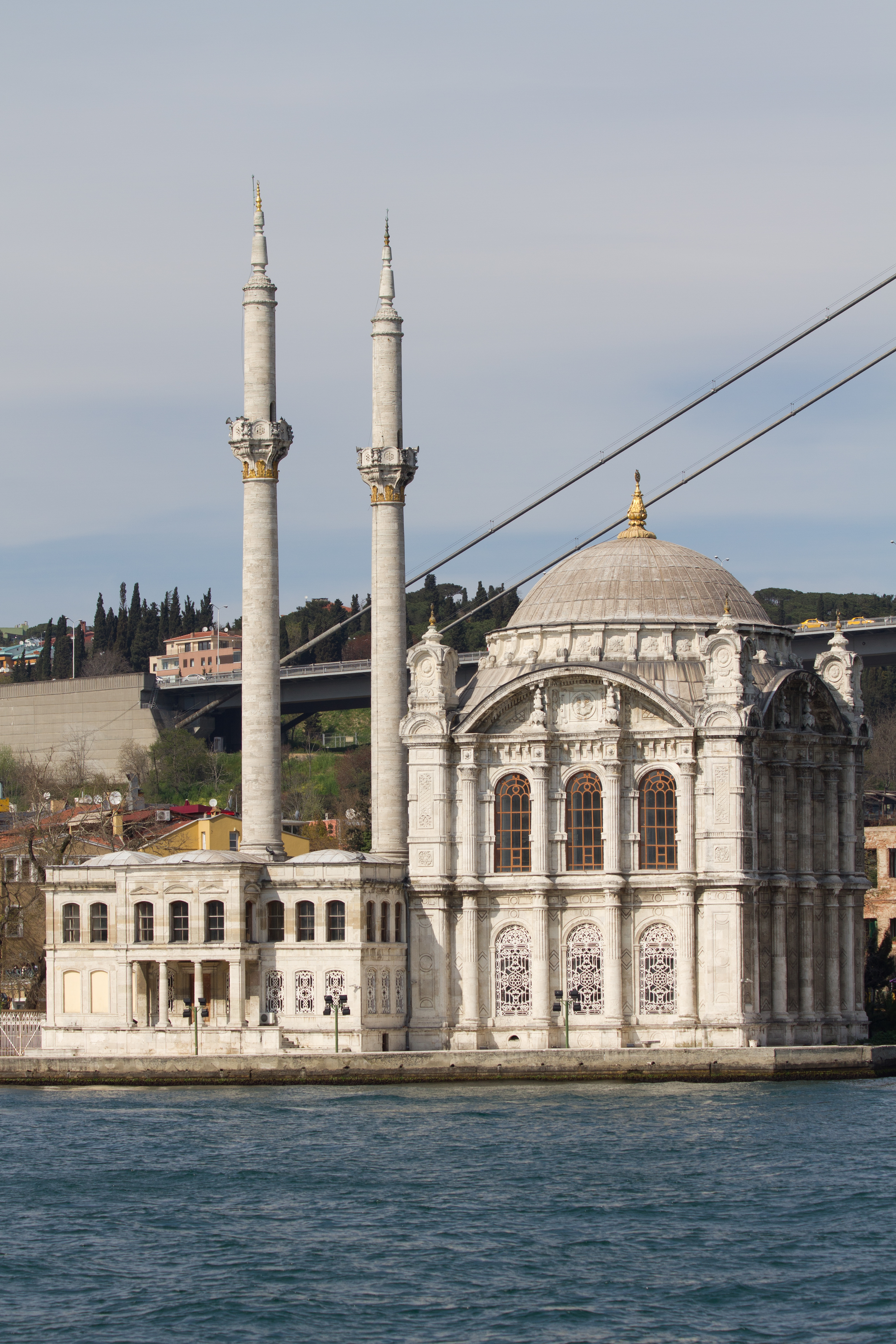 Ortaköy Mosque.